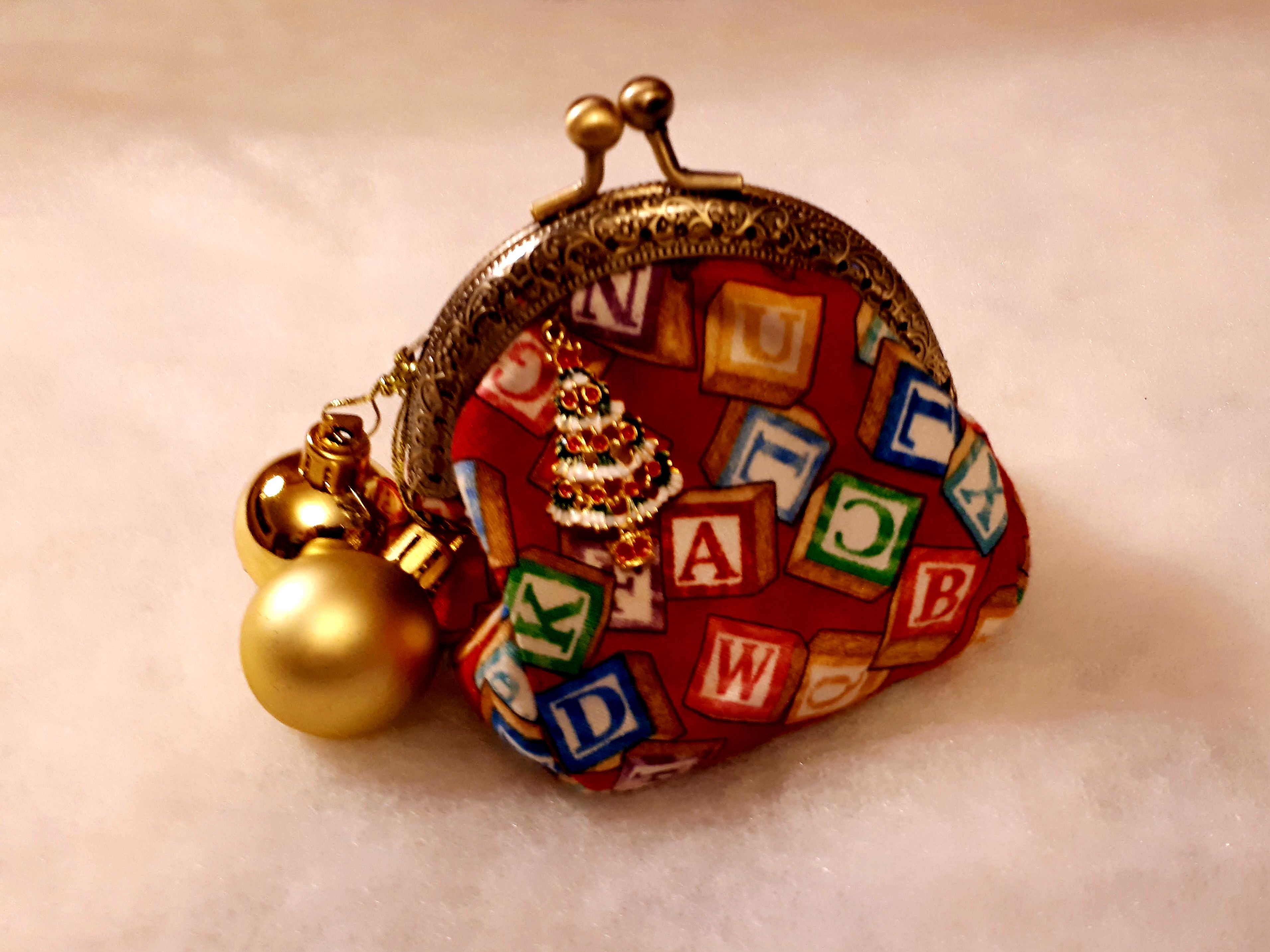 A purse for coins from rags (photo of the author)